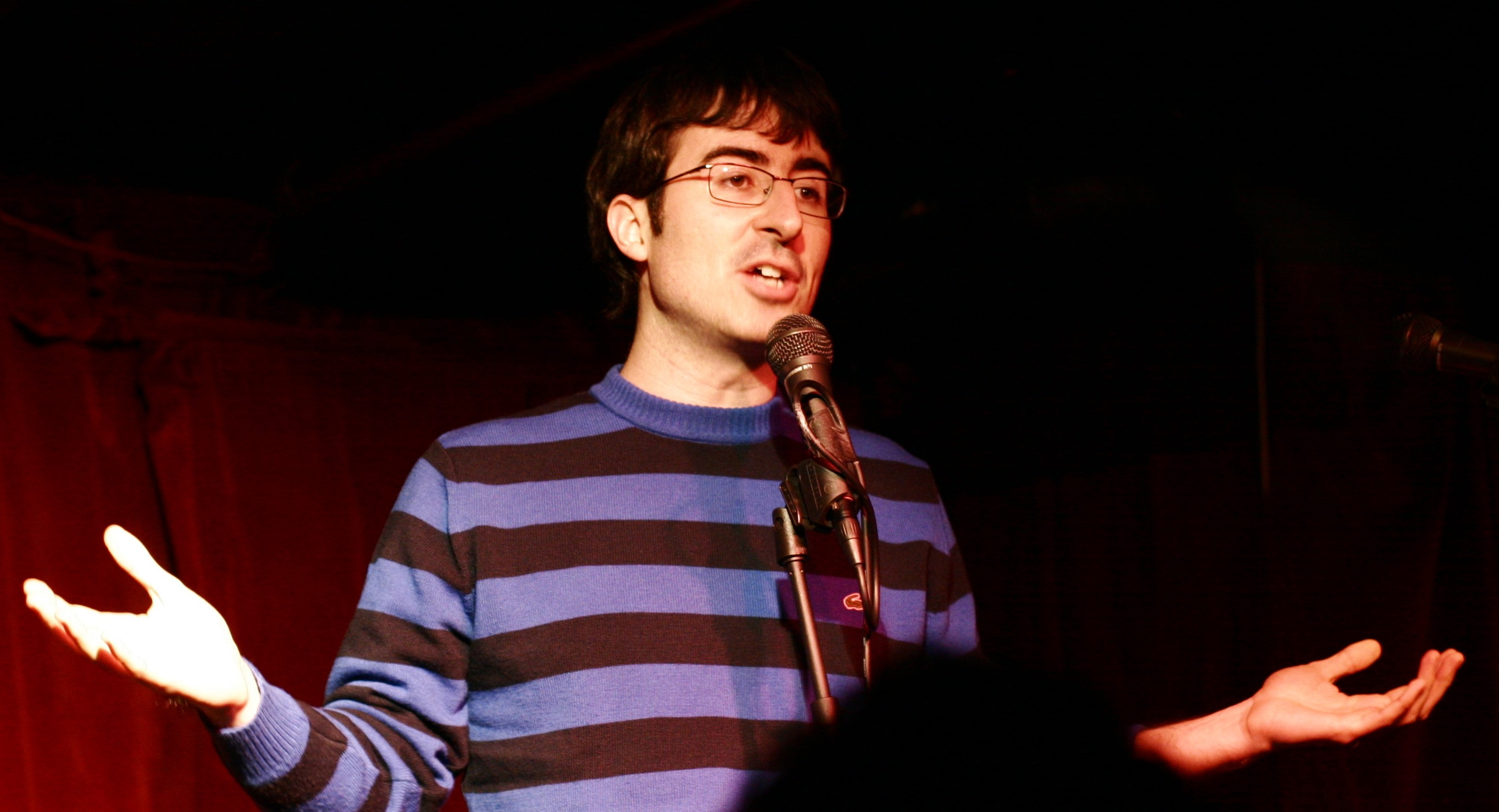 John Oliver in 2007